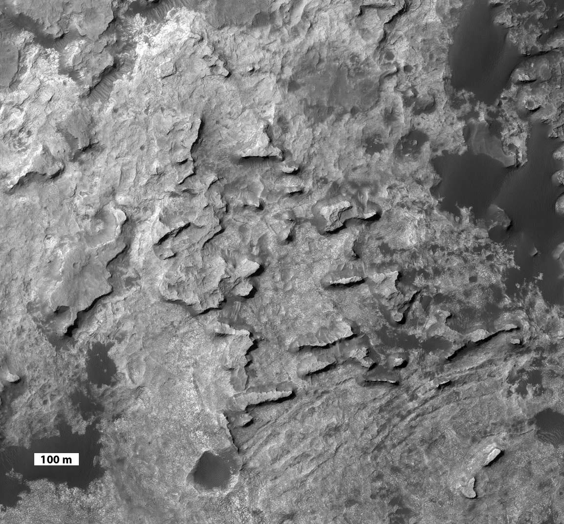 PIA17587: 'Murray Buttes' at Foot of Mount Sharp on Mars This view taken from orbit shows a cluster of small, steep-sided knobs called "Murray Buttes," on the planned route for NASA's Mars rover Curiosity to reach the slopes of Mount Sharp. The scene covers a patch of ground about 0.8 mile (1.3 kilometers) across. North is up. The largest buttes in the group are about the size of a football field and the height of a goal post. Darker ground at upper right and lower left is part of sand dunes along the northern edge of Mount Sharp, within Gale Crater. Murray Buttes is located at a gap in that band of dunes, making passage through this area an attractive access route to the mountain slopes just south of this scene. Curiosity's science team chose the informal name Murray Buttes in tribute to Bruce Murray (1931-2013), an influential advocate for planetary exploration who was a member of the science teams for NASA's earliest missions to Mars and later served as director of NASA's Jet Propulsion Laboratory. The image is a portion of an observation made by the High Resolution Imaging Science Experiment (HiRISE) camera aboard NASA's Mars Reconnaissance Orbiter. A scale bar of 100 meters (328 feet) is provided at lower left.